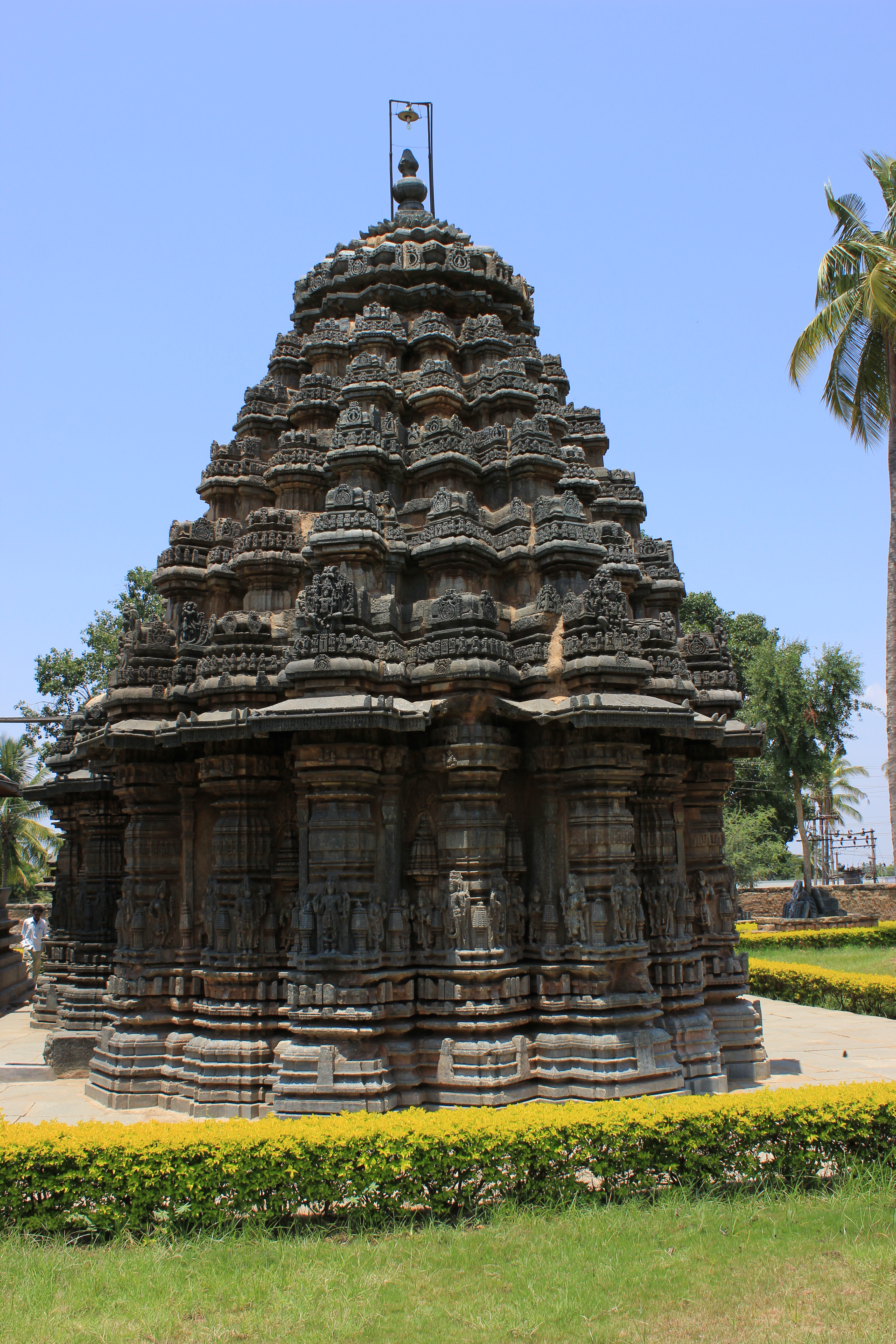 This photograph was taken by self (Dinesh Kannambadi) at the Ishvara temple (also spelt Isvara or Ishwara) in Arasikere, Hassan district, Karnataka state, India. The temple was built in 1220 AD during the rule of the Hoysala Empire King Veera Ballala II.